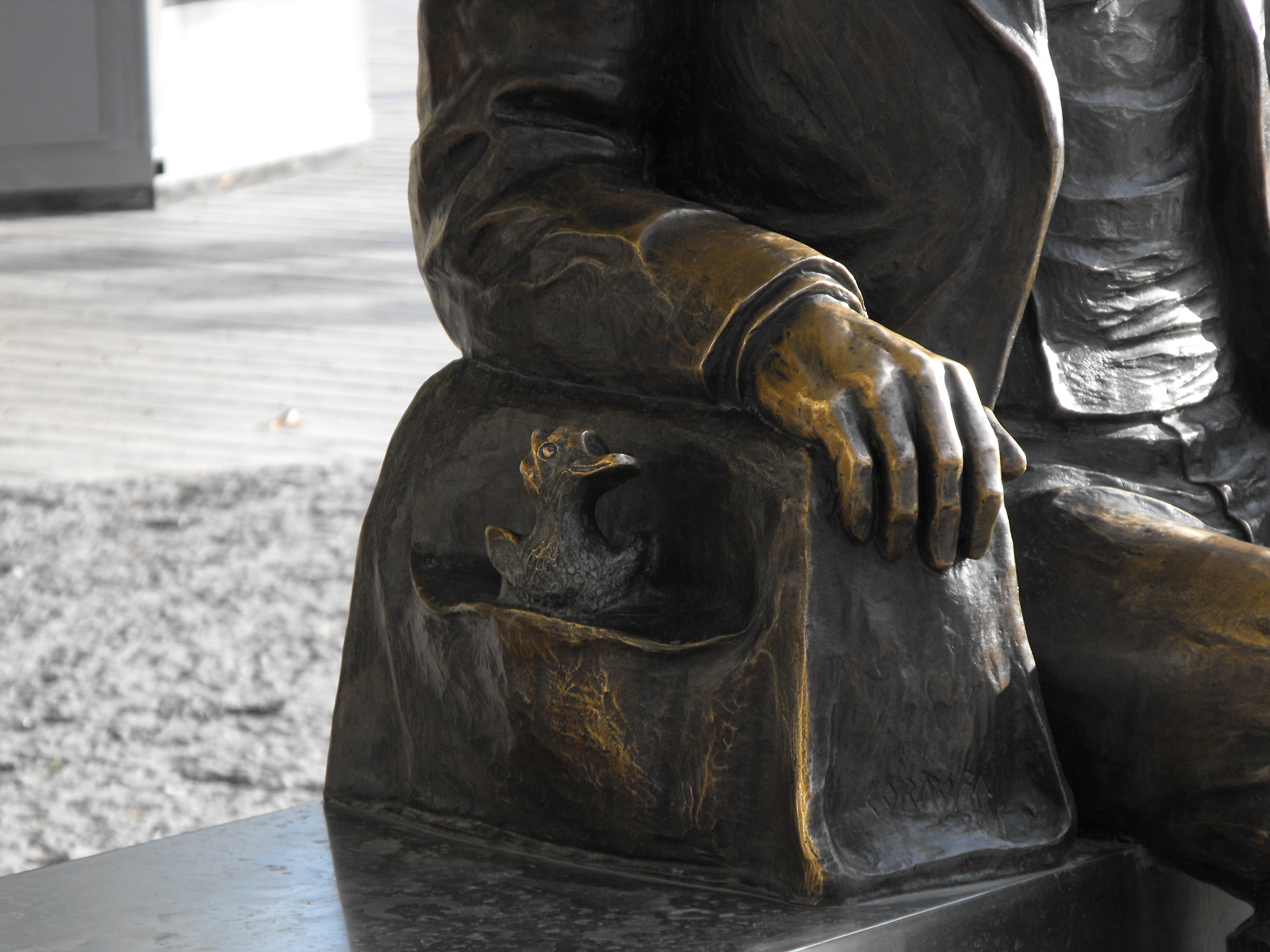 Detail of monument of Hans Christian Andersen in Malaga, Spain.